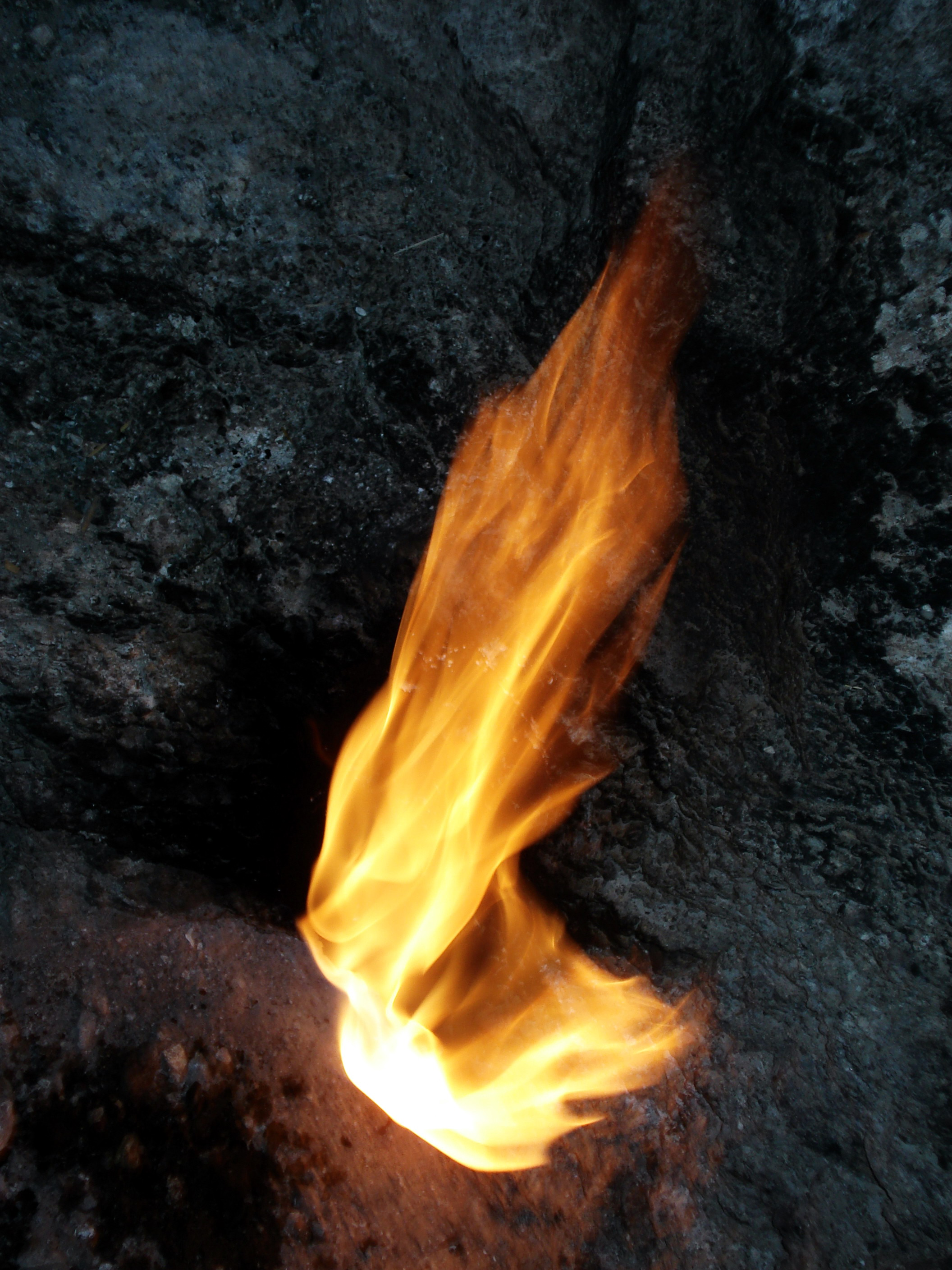 Close-up view of the eternally 'flaming stones' of Yanartaş (the ancient Chimaera) near Çıralı in Lycia region of Anatolia, southwest Turkey. (see TripAdvisor review of Chimaera) The flames come from leaking natural gas.